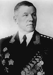 Army General Alexander Gorbatov, post 1955